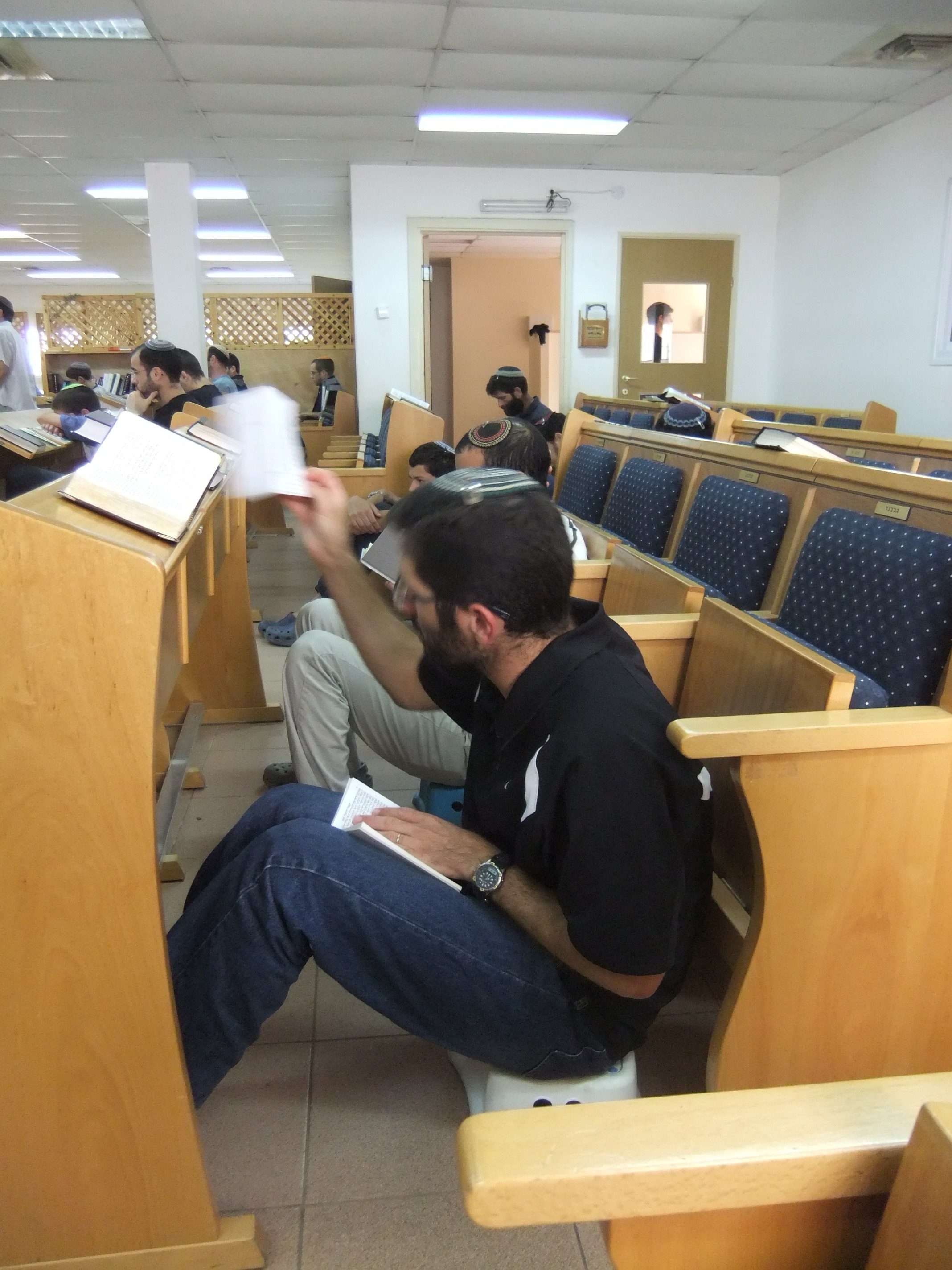 People sitting on a low stool during prayer on Tisha B'av in Givat Zvi synagogue in Ofra. Others do not follow the custom and are sitting on regular seats